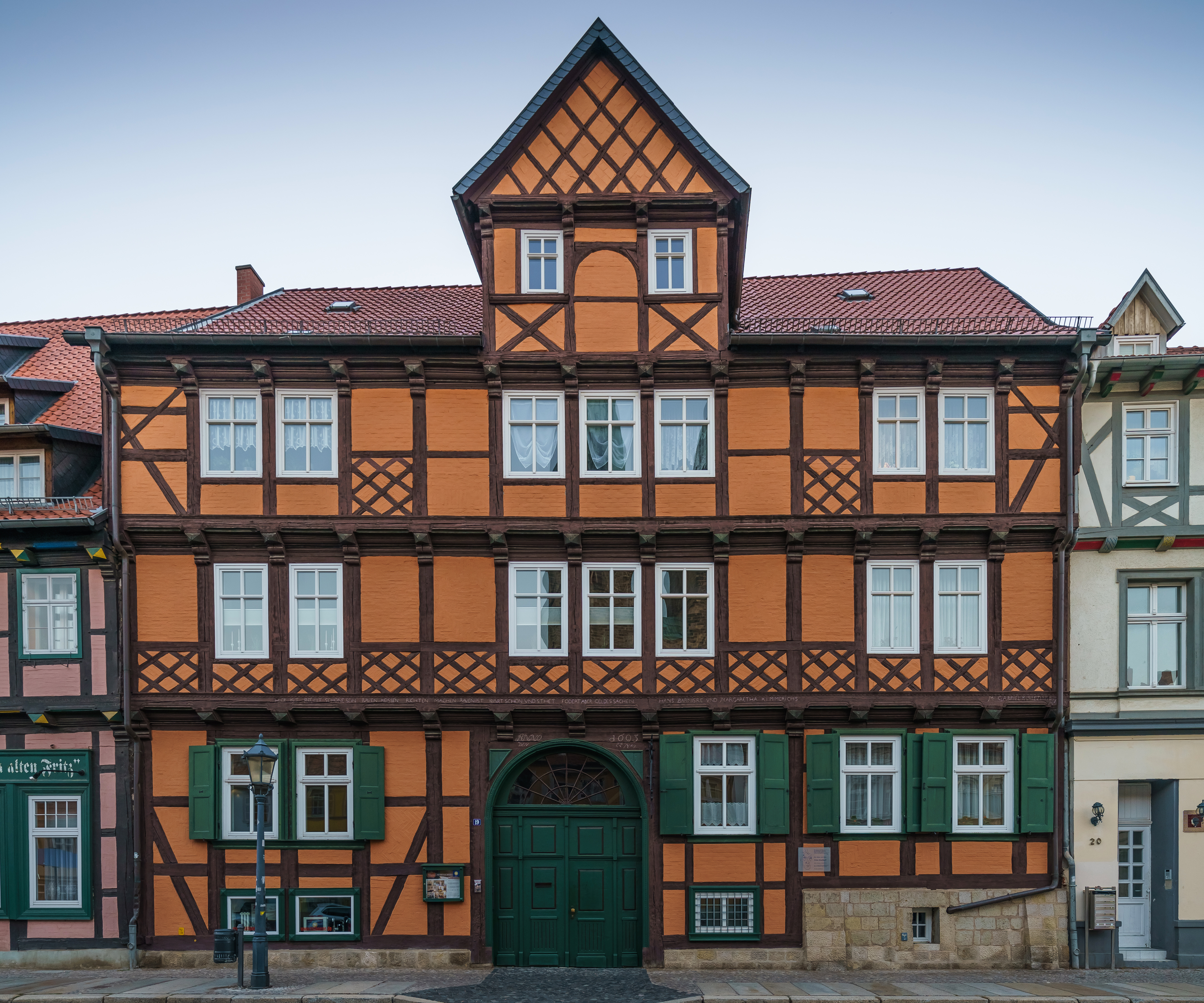 Old Town in Quedlinburg, Germany